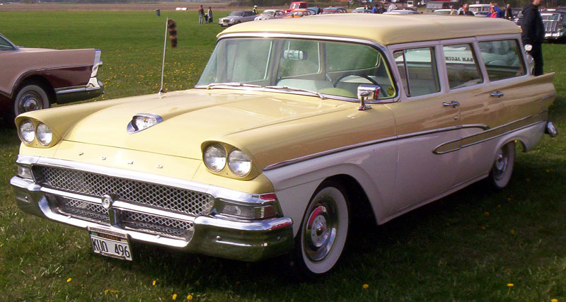 1958 Ford Country Sedan. The 1958 US Ford station wagon series was offered in Ranch Wagon, Fordor Ranch Wagon, Del Rio Ranch Wagon, Country Sedan and Country Squire models.